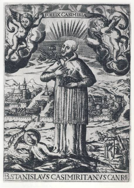 Saint Stanisław Kazimierczyk